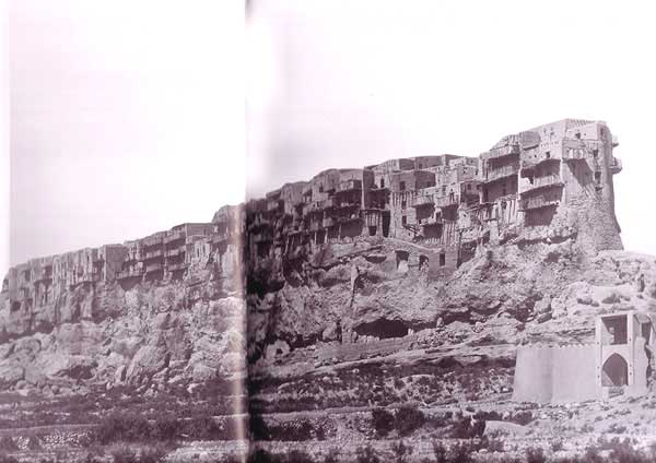 Yazdkhast, mesa-top town in 1873 photo. In Isfahan province, Iran.